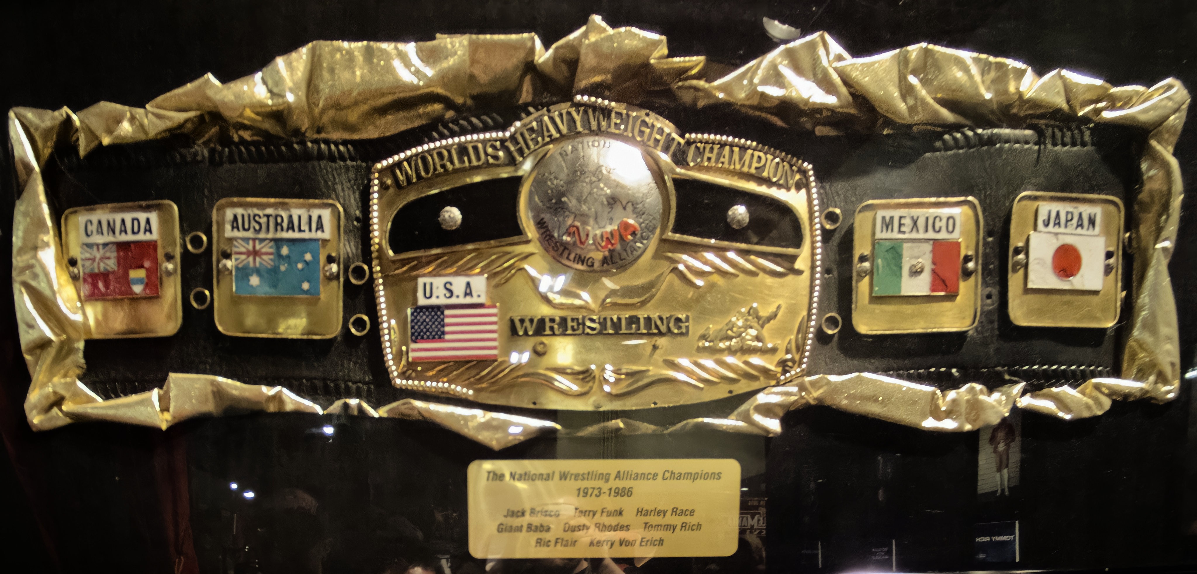 WWE Fan Axxess - Classic Memorabilia/Ring Gear